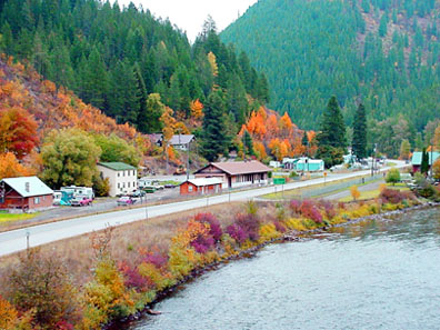 Avery, Idaho in autumn